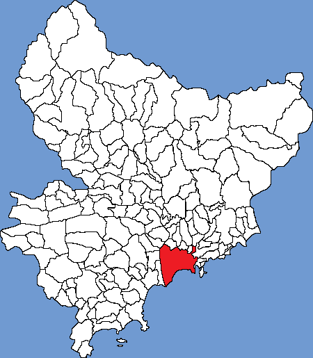 Map of the location of Nice in Alpes-Maritimes.